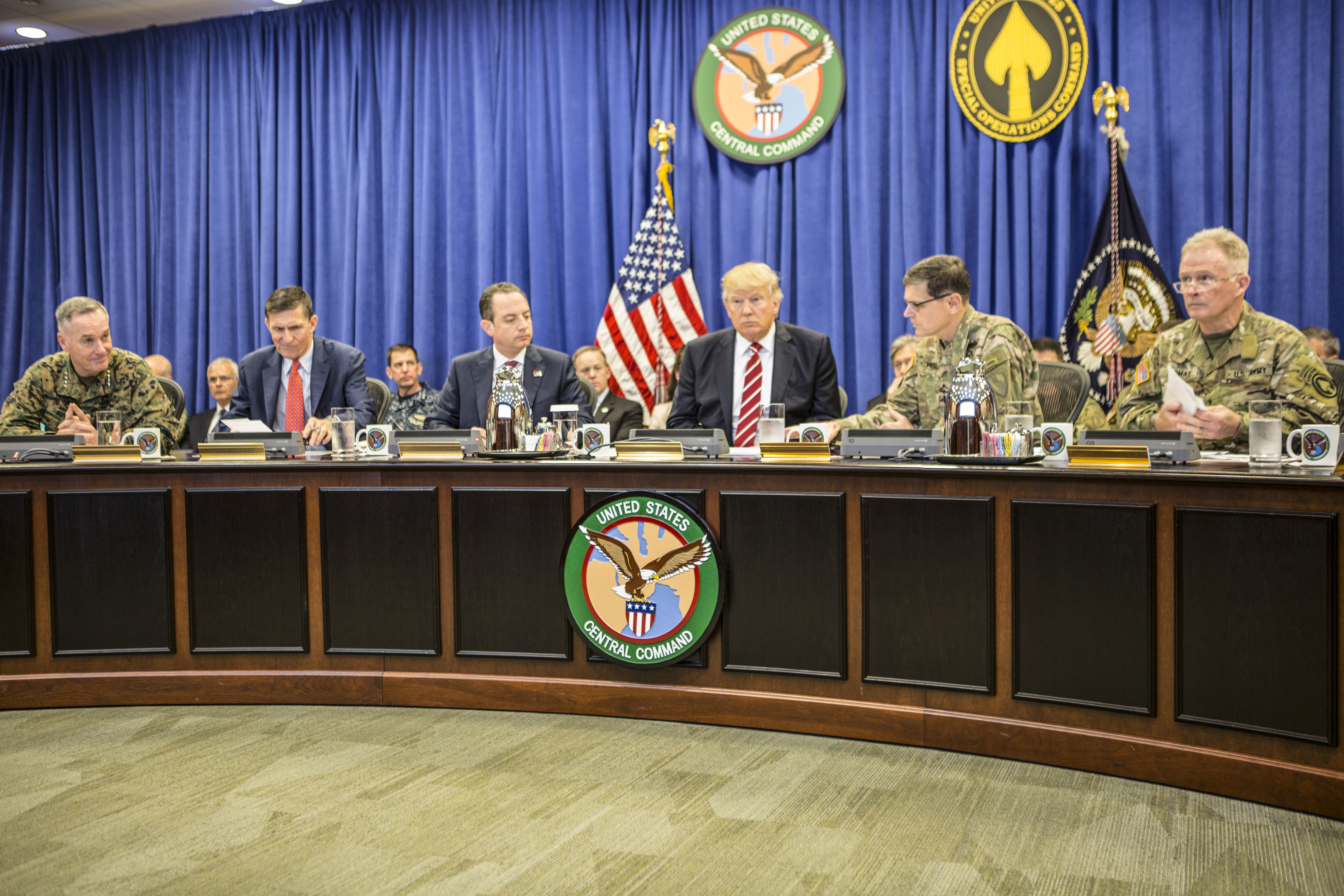 President Donald J. Trump discusses current military operations with Marine Gen. Joseph F. Dunford Jr., chairman of the Joint Chiefs of Staff, Army Gen. Joseph Votel, commander of U.S. Central Command Commander, and Gen. Raymond A. "Tony" Thomas, U.S. Special Operations Command Commander at USCENTCOM headquarters on MacDill Air Force Base Feb. 6, 2017. President Trump later addressed the troops, coalition representatives and senior U.S. commanders. (U.S. Central Command photo by Marine Corps Sgt. Alan Belser)